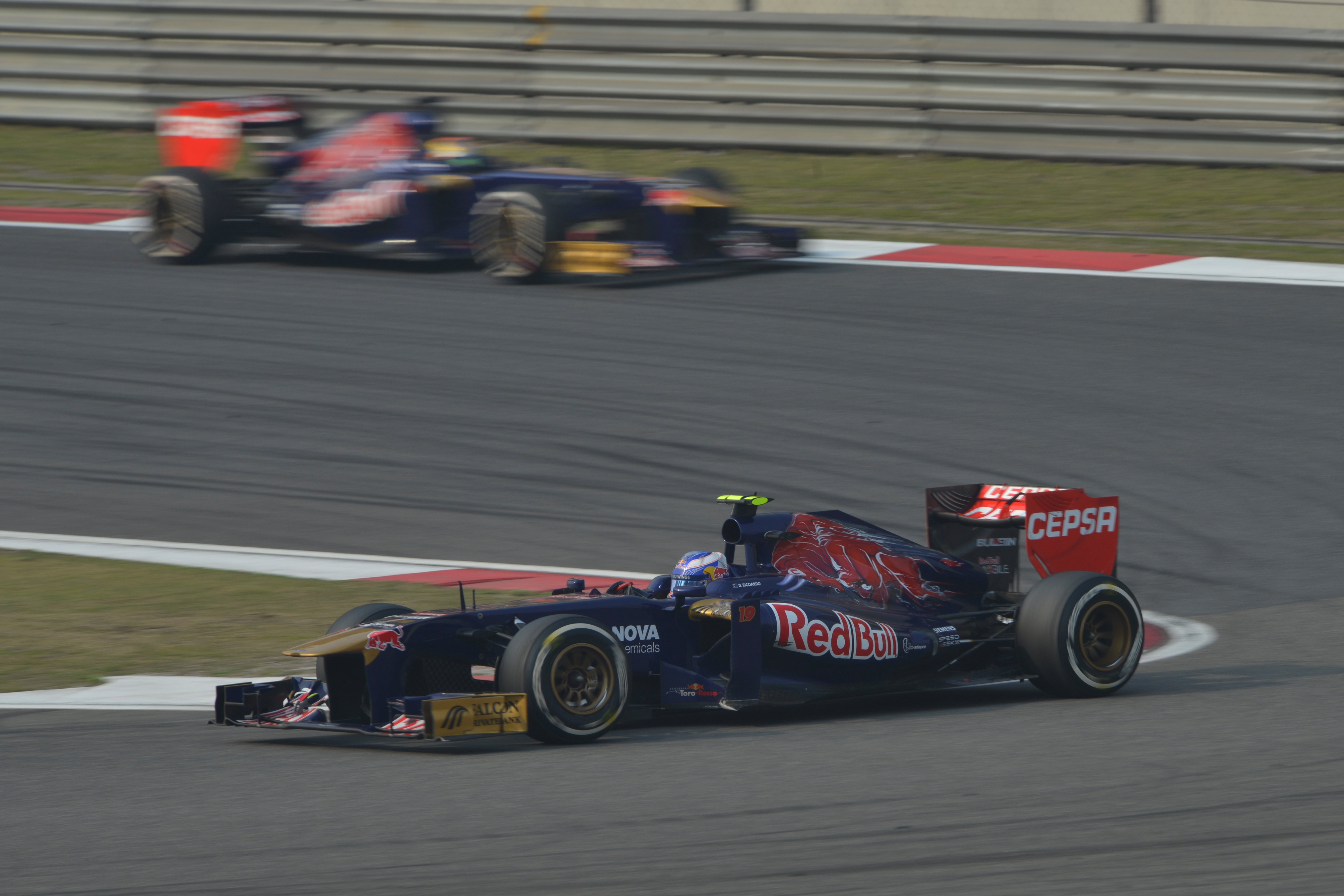 Daniel Ricciardo and Jean-Eric Vergne at 2013 Chinese Grand Prix